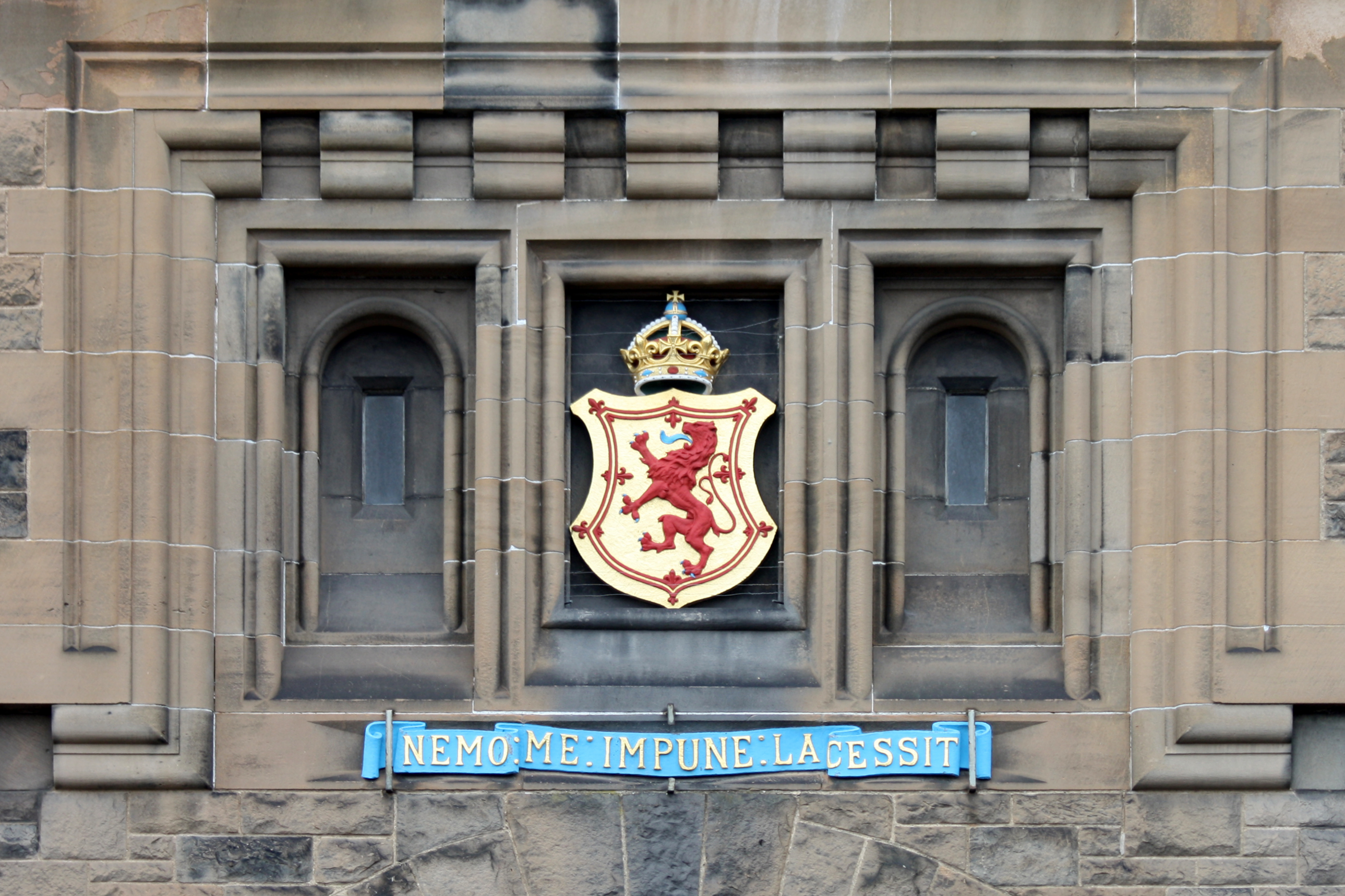 Arms and motto of Scotland above the main entrance of Edinburgh Castle.